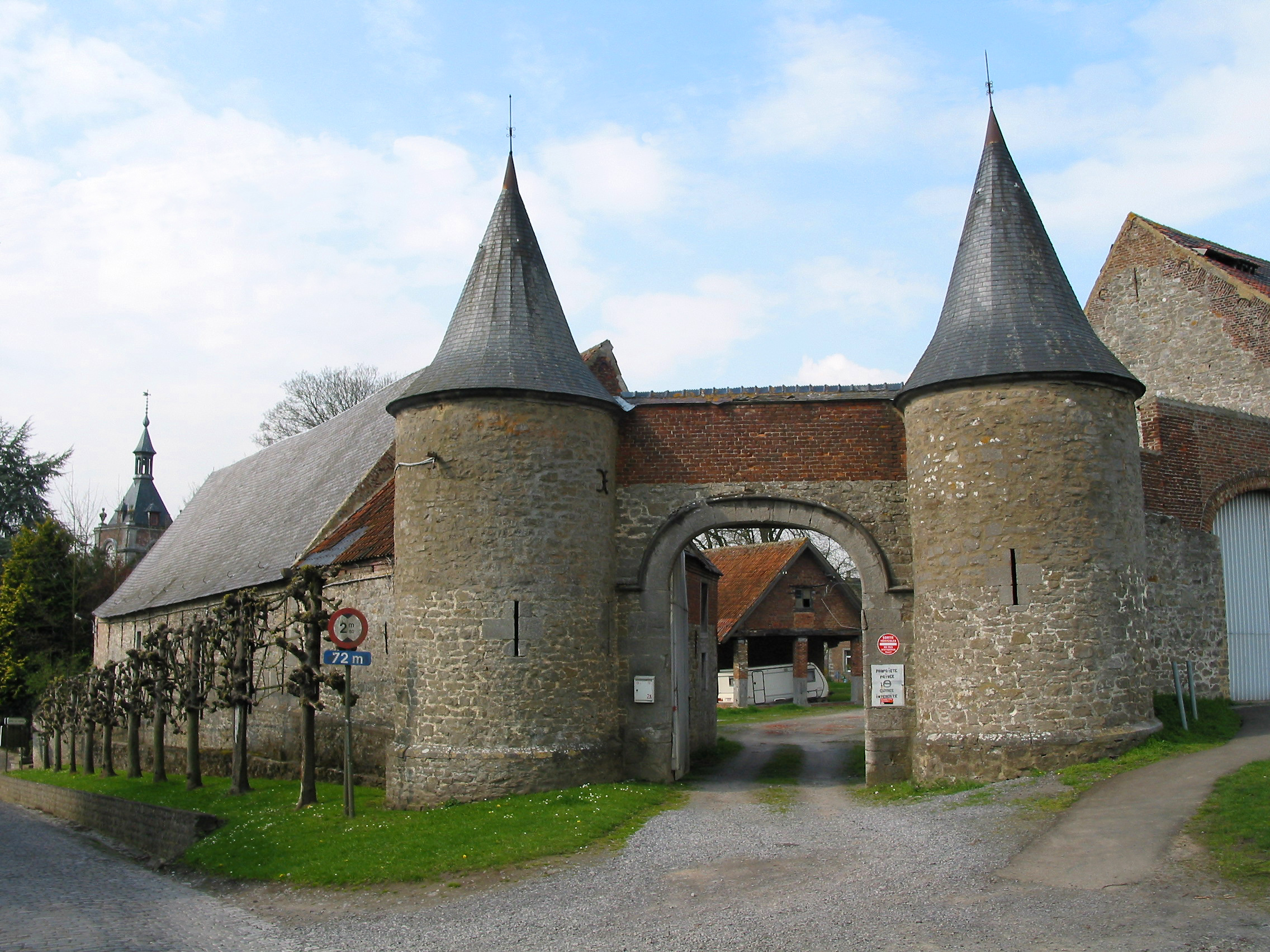 Écaussinnes-Lalaing (Belgium), fortified farm of the castle.